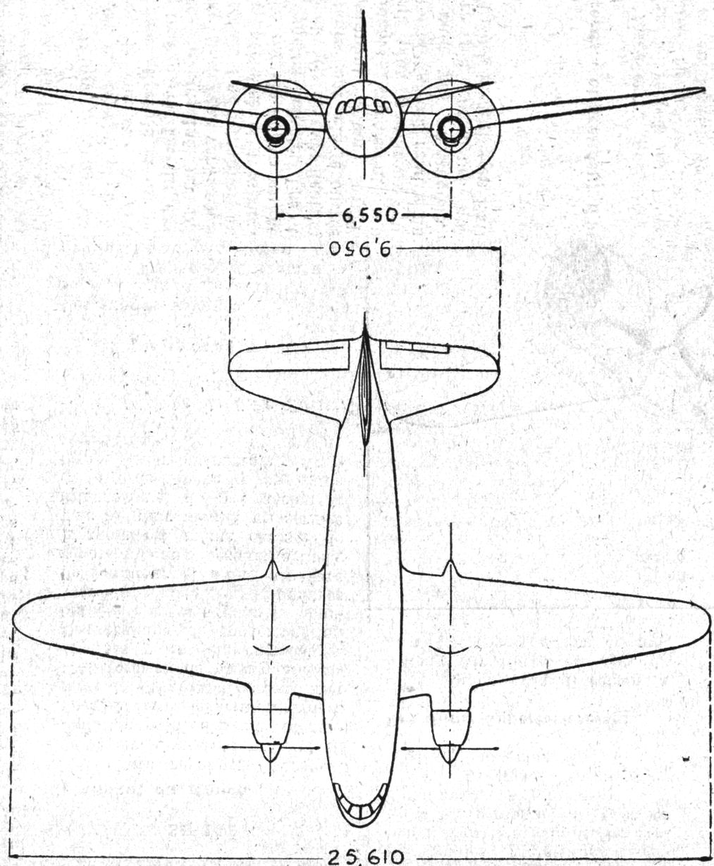 SO 30R 2-view drawing from L'Aerophile February 1946